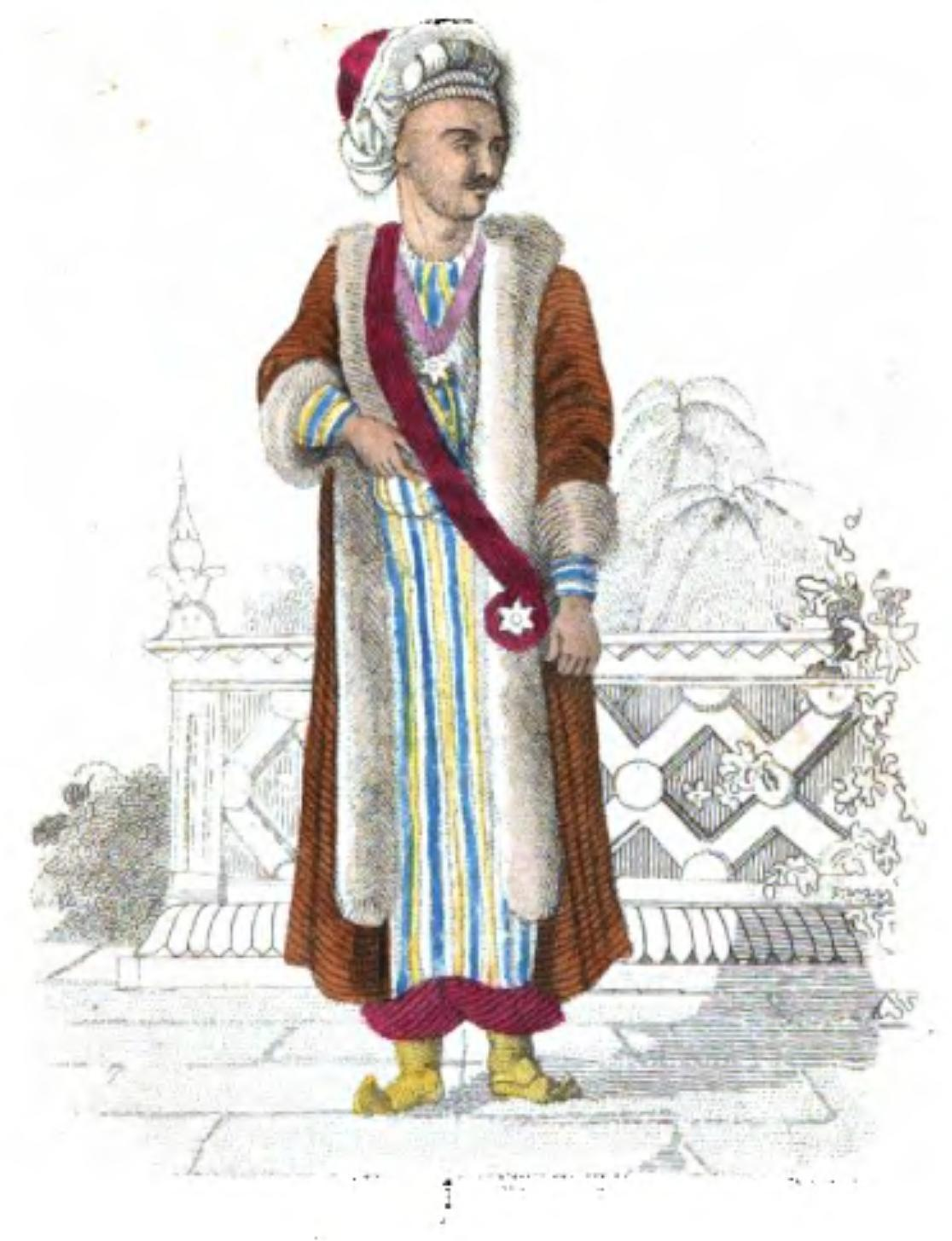 Ambassador. Daoud Zadour. Extracted image, p.136, from the book "Persia" as identified at Page:Frederic Shoberl - Persia.djvu/135